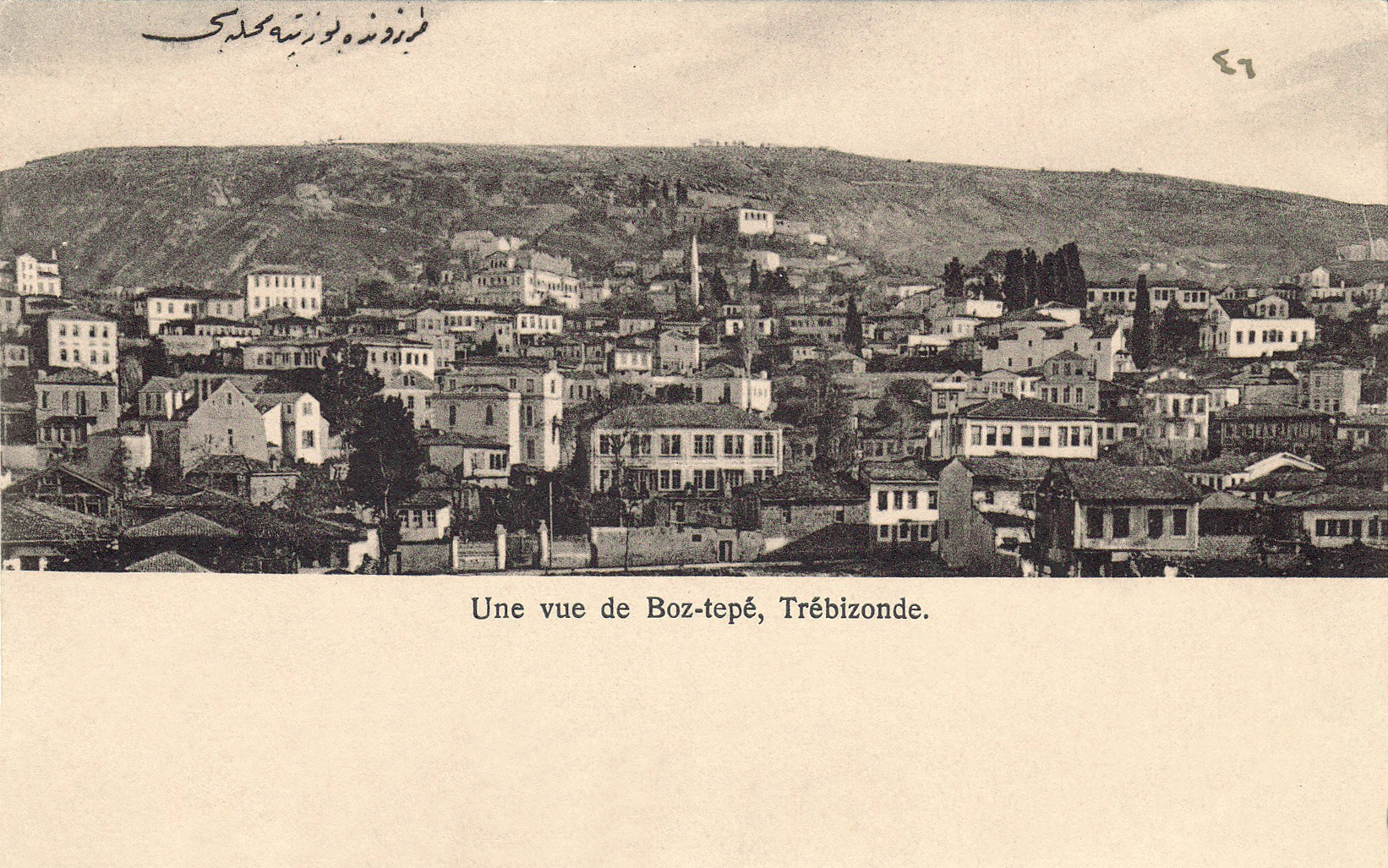 Postcard by Osman Nuri featuring Boztepe hill in Trabzon, Turkey.